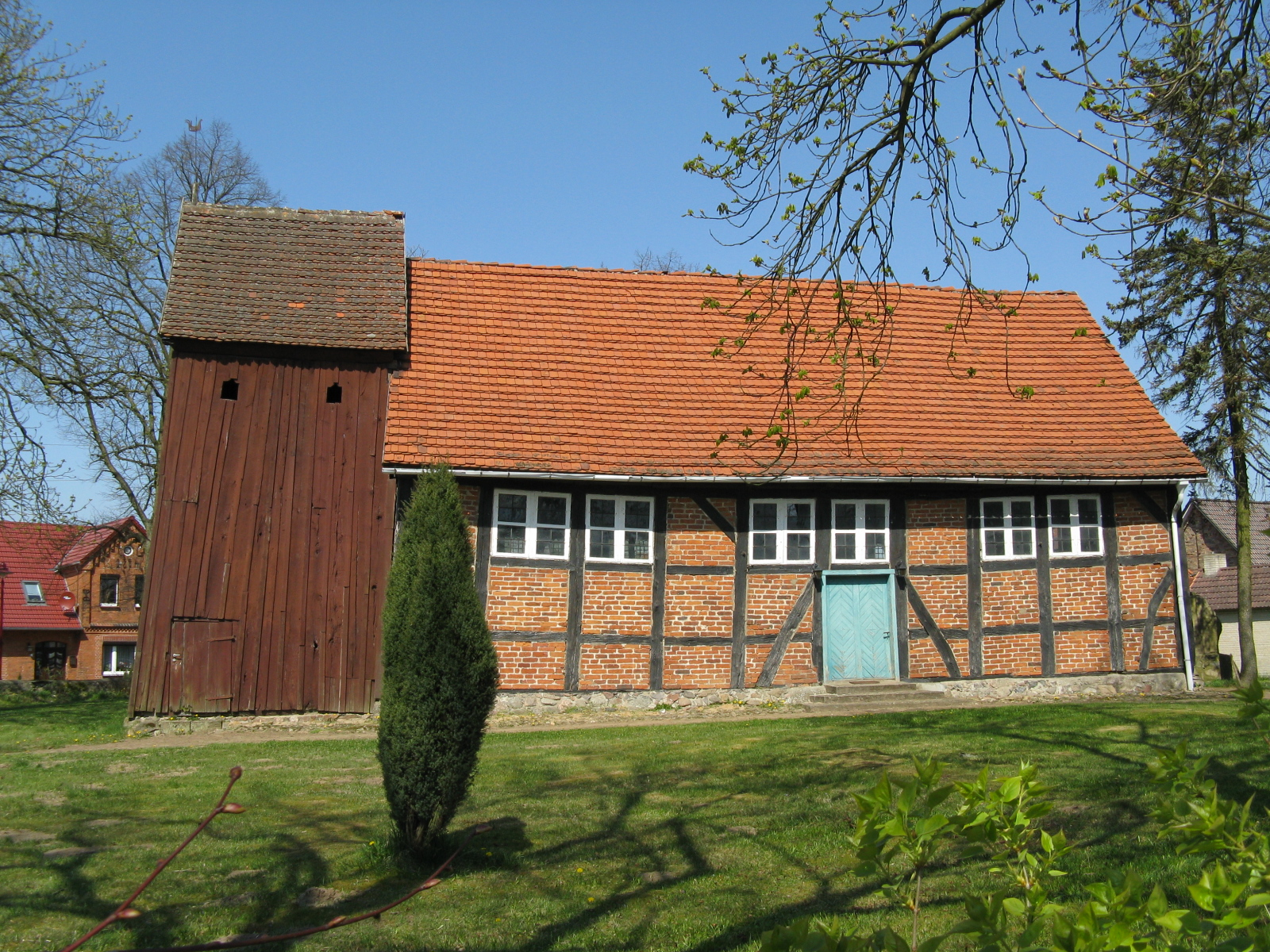 Church in Groß Pankow, Mecklenburg-Vorpommern, Germany